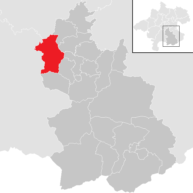 district Kirchdorf an der Krems